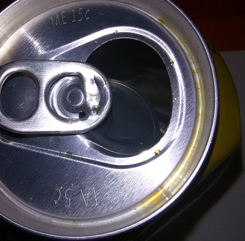 12.5% ABV canned wine showing Iowa 5c and Maine 15c signifying these are subject to these states' container deposit legislation